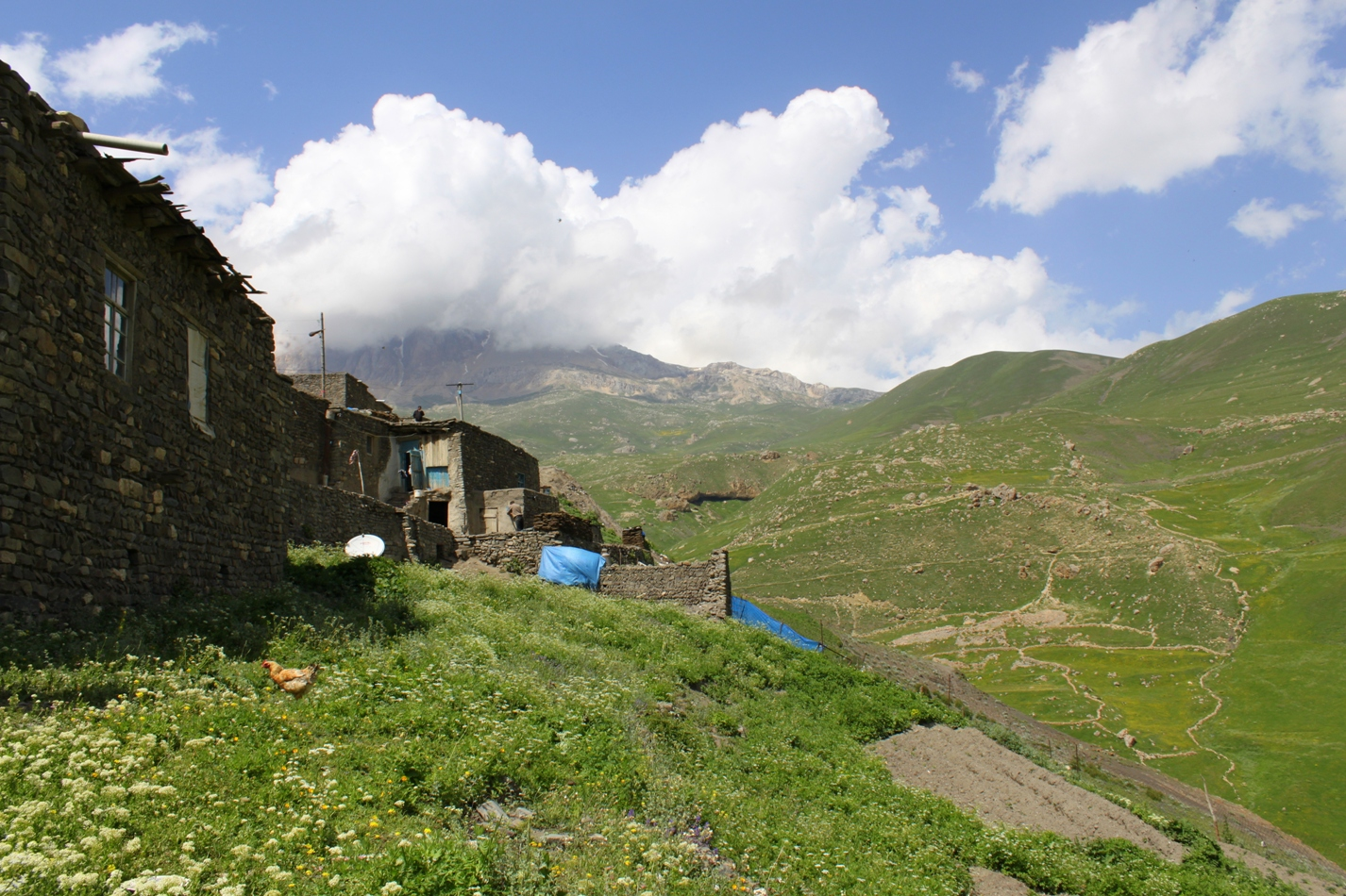 Quba area, Azerbaijan.